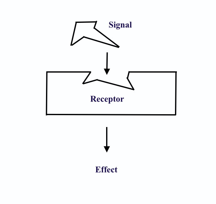 Basic binding of signal ligand to receptor to induce response